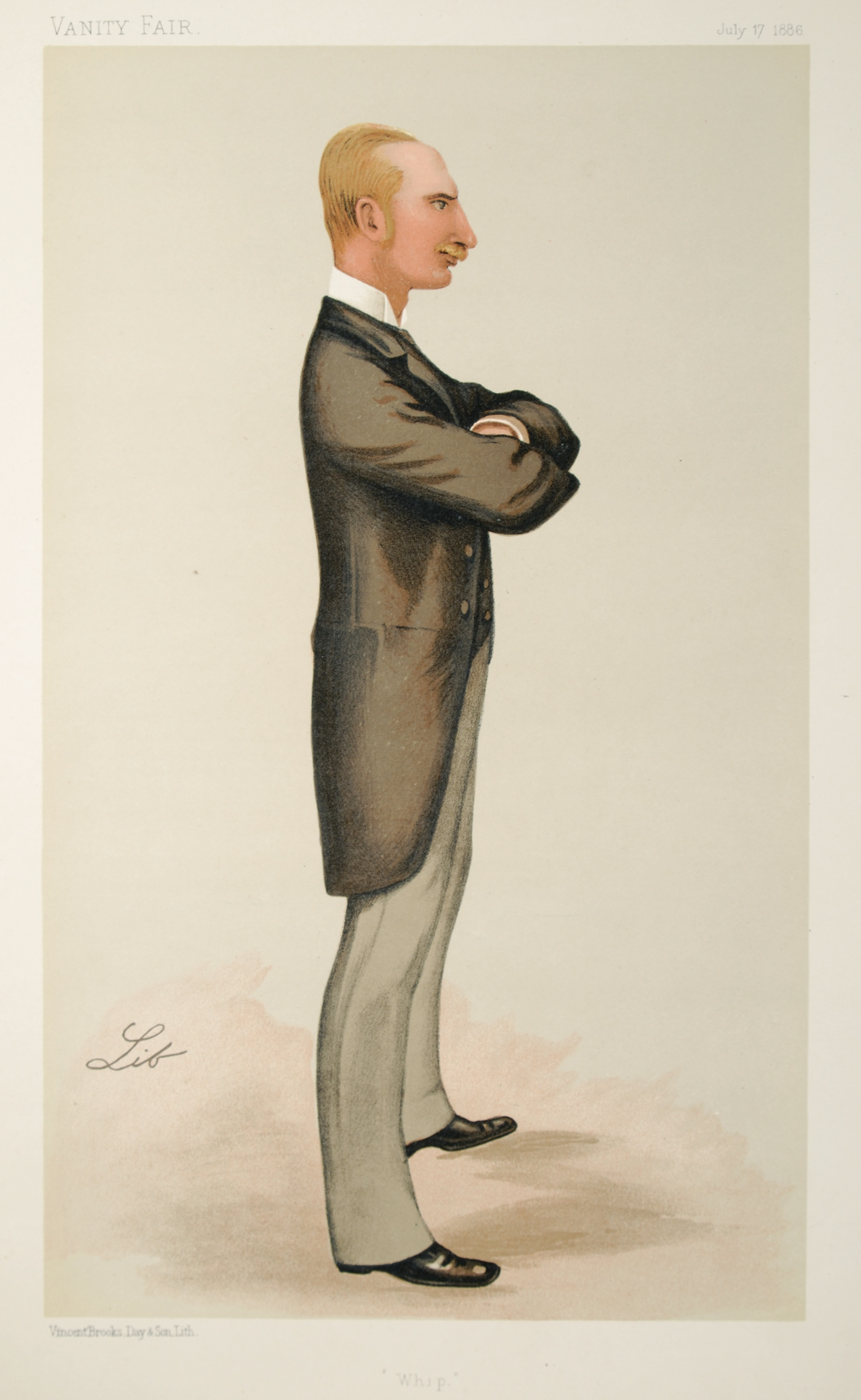 Statesmen No.493: Caricature of Lt-Col W Hood Walrond MP. Caption reads: "Whip"